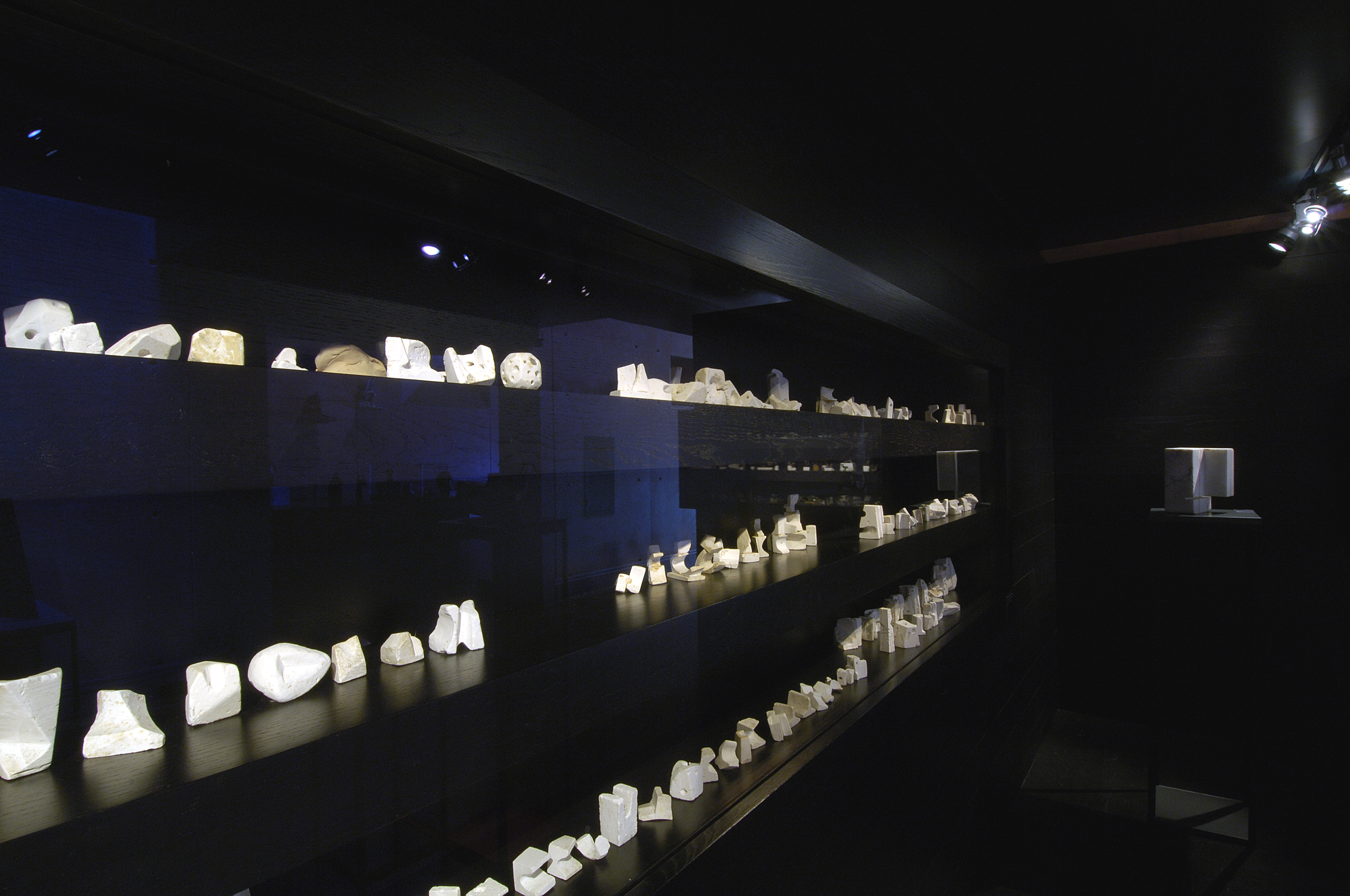 This image was uploaded within the collaboration between the Oteiza Museum and the Basque Wikimedians User Group